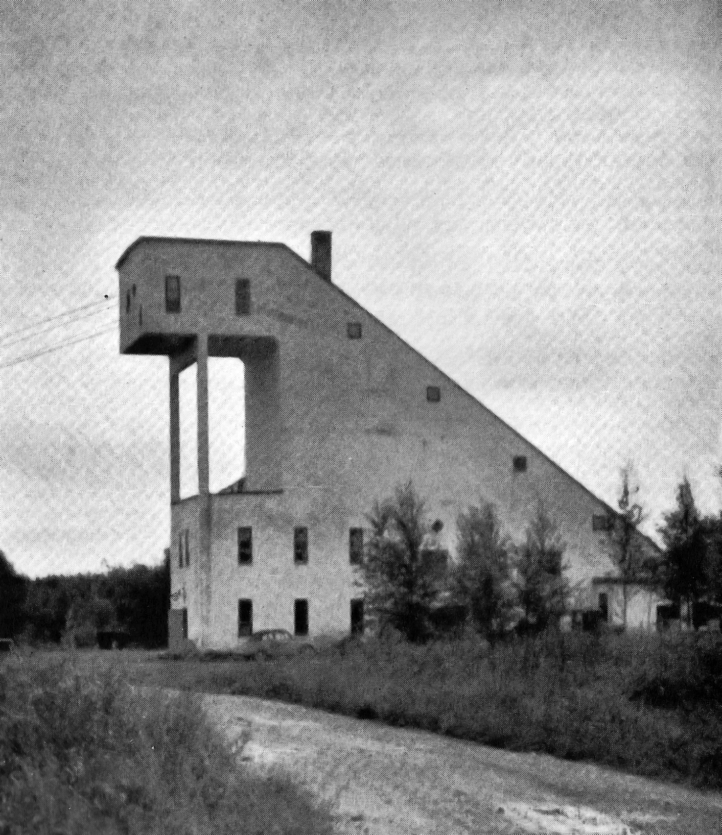 Mossgruvan, old winding tower, probably in the 1950:s